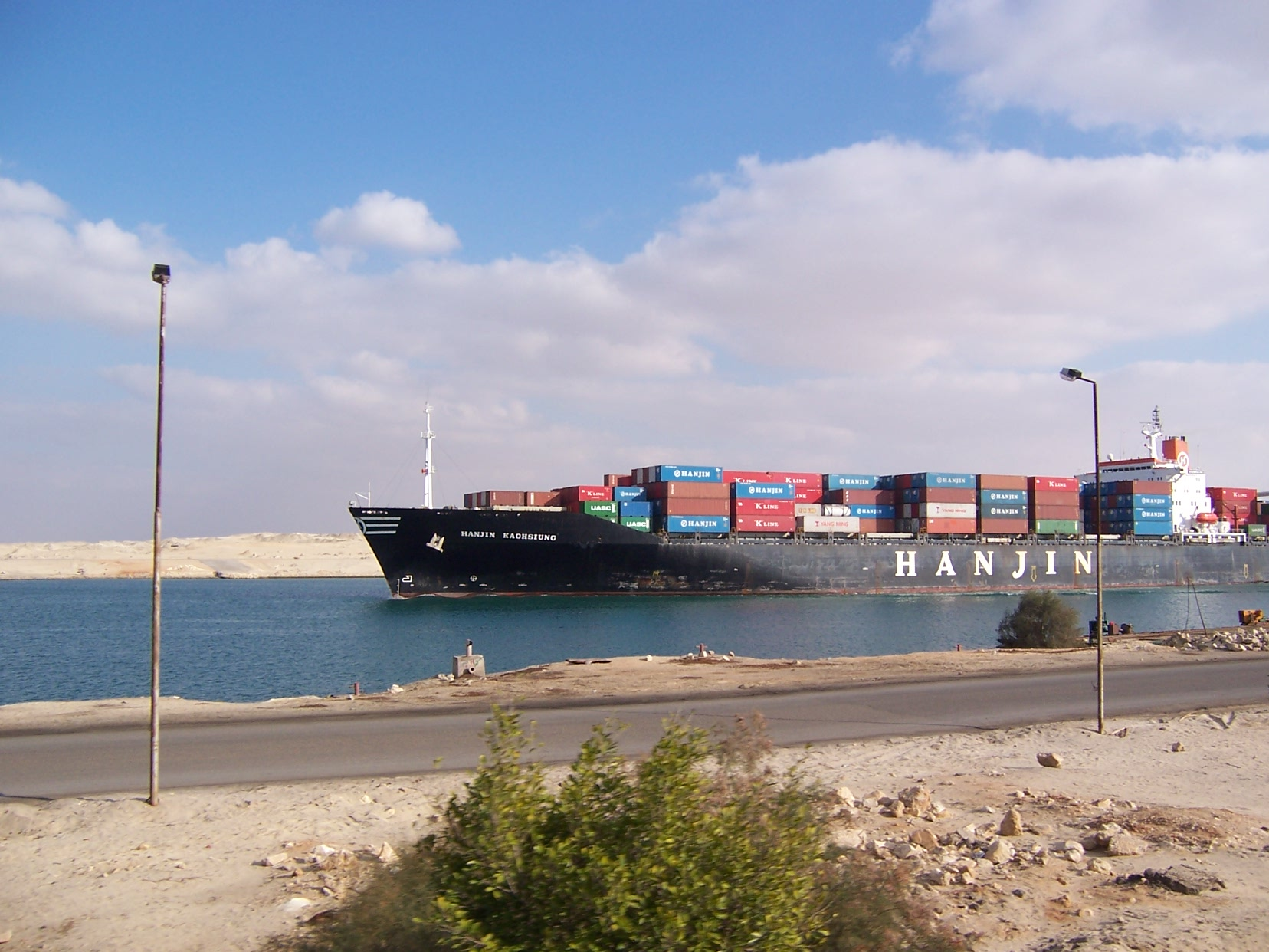 Photos from winter Egypt trip 2007 Jan-Feb